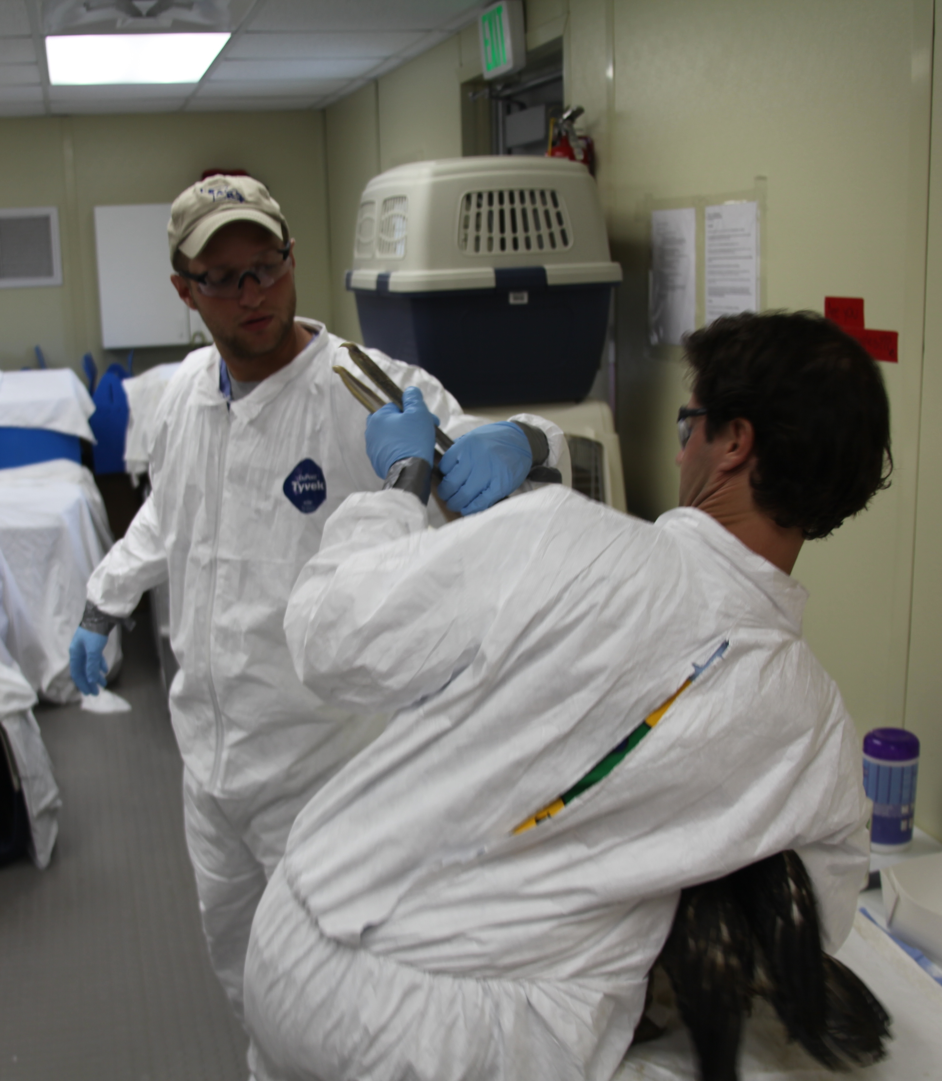 International Bird Rescue Research Center responders check out an oiled brown pelican at the Stabilization site at Grand Isle (La. Marine Lab) Jul 19, 2010 by Tom MacKenzie USFWS 7466